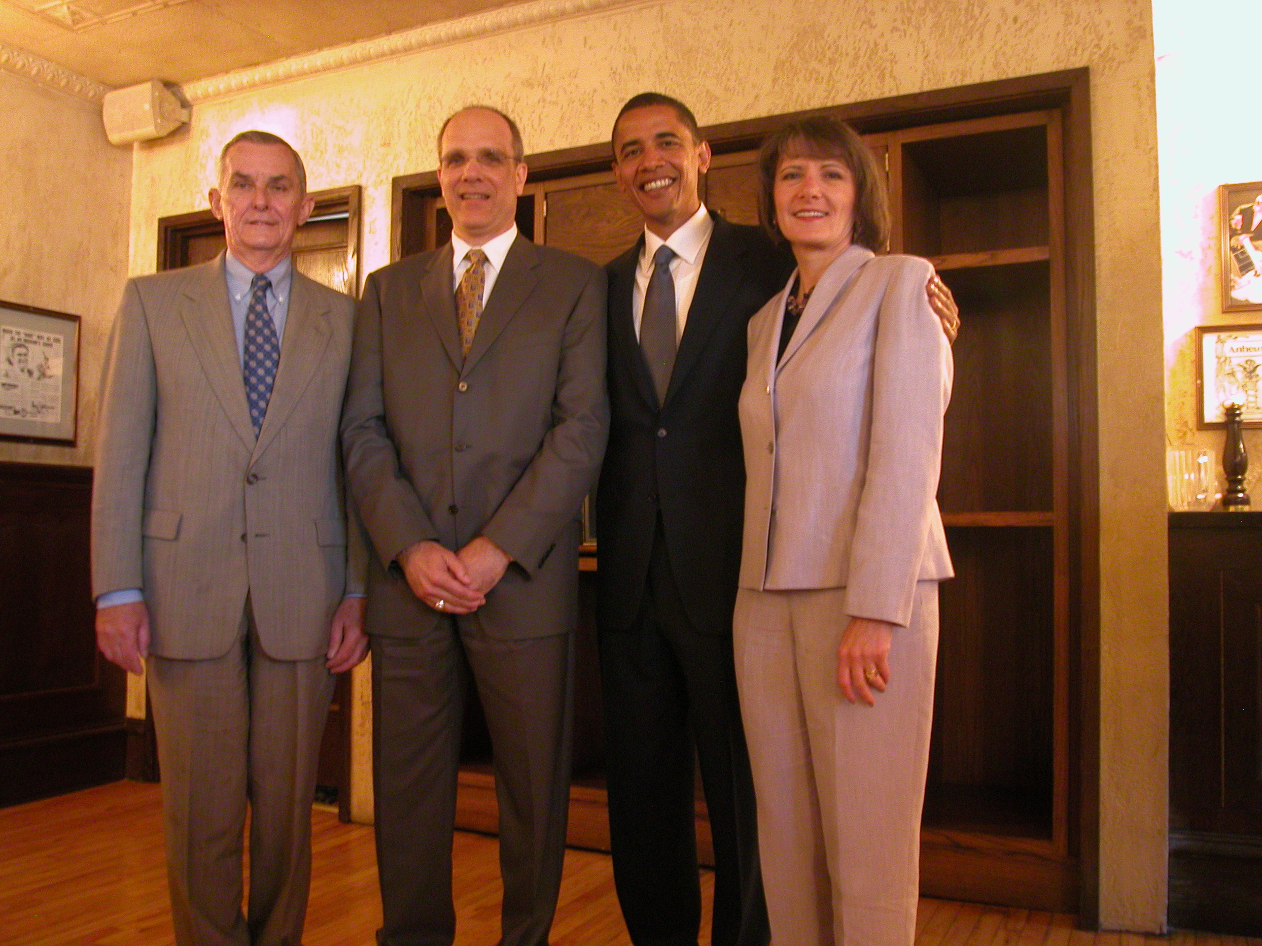 Barack Obama was an Illinois State Senator running for the U. S. Senate when I took this picture. I never occurred to me he'd eventually be President of the United States.